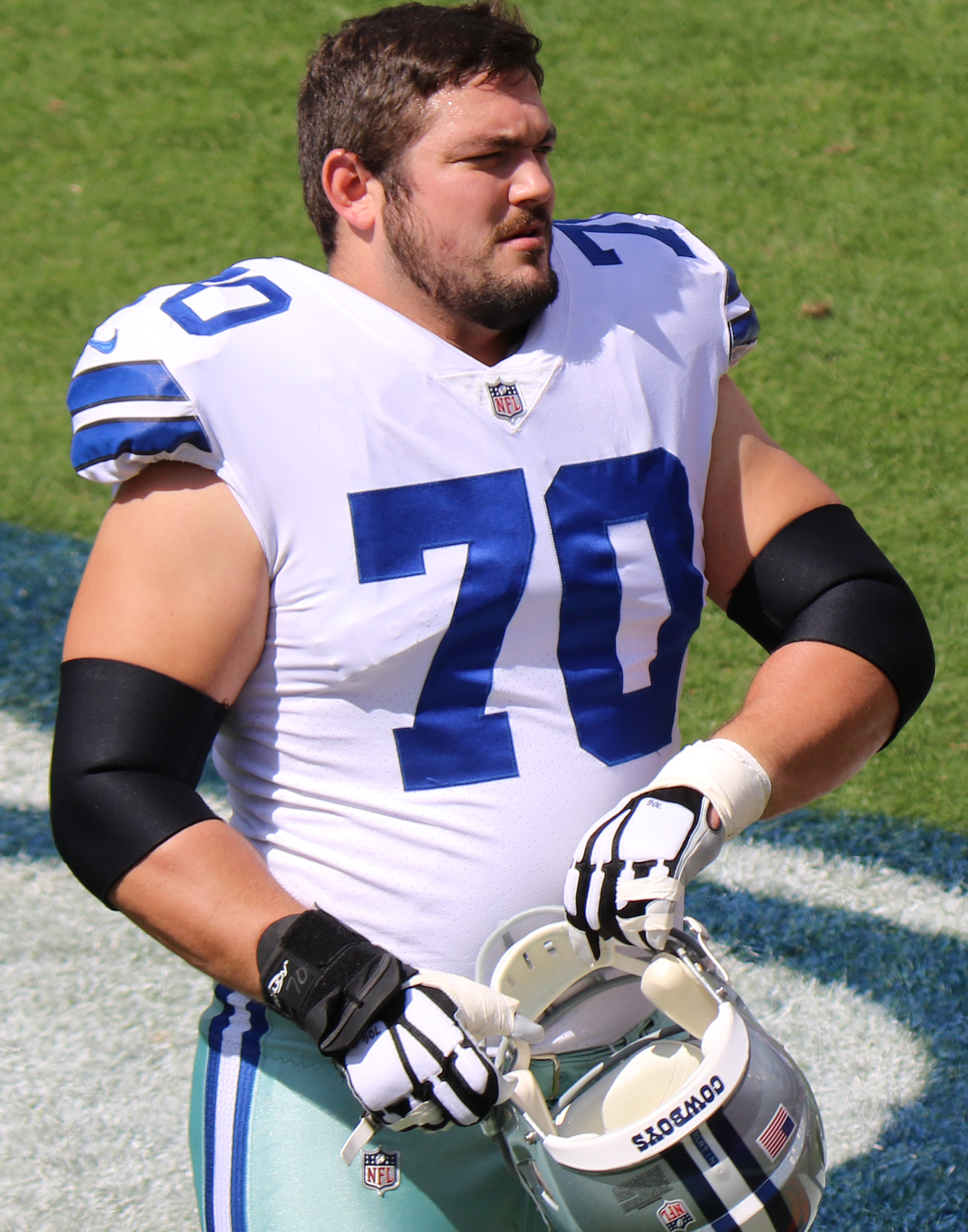 Zack Martin, a player on the National Football League.